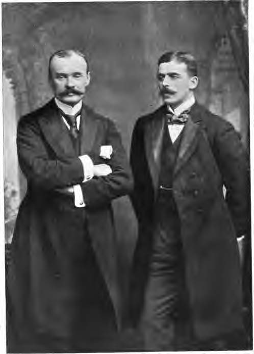 Frontispiece portraits from Bosiragon's book, The Benin Massacre